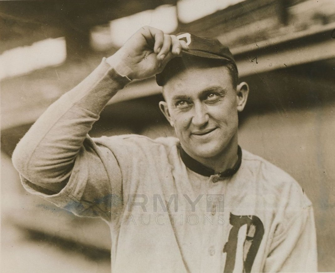 Ty Cobb posing in uniform and tipping his cap